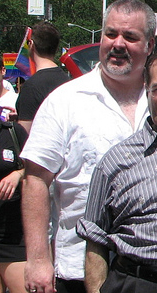 New York State Assemblyman Daniel O'Donnell at the New York City Gay Pride parade in 2006. This file has been extracted from another file: Jerrold Nadler 2006.jpg